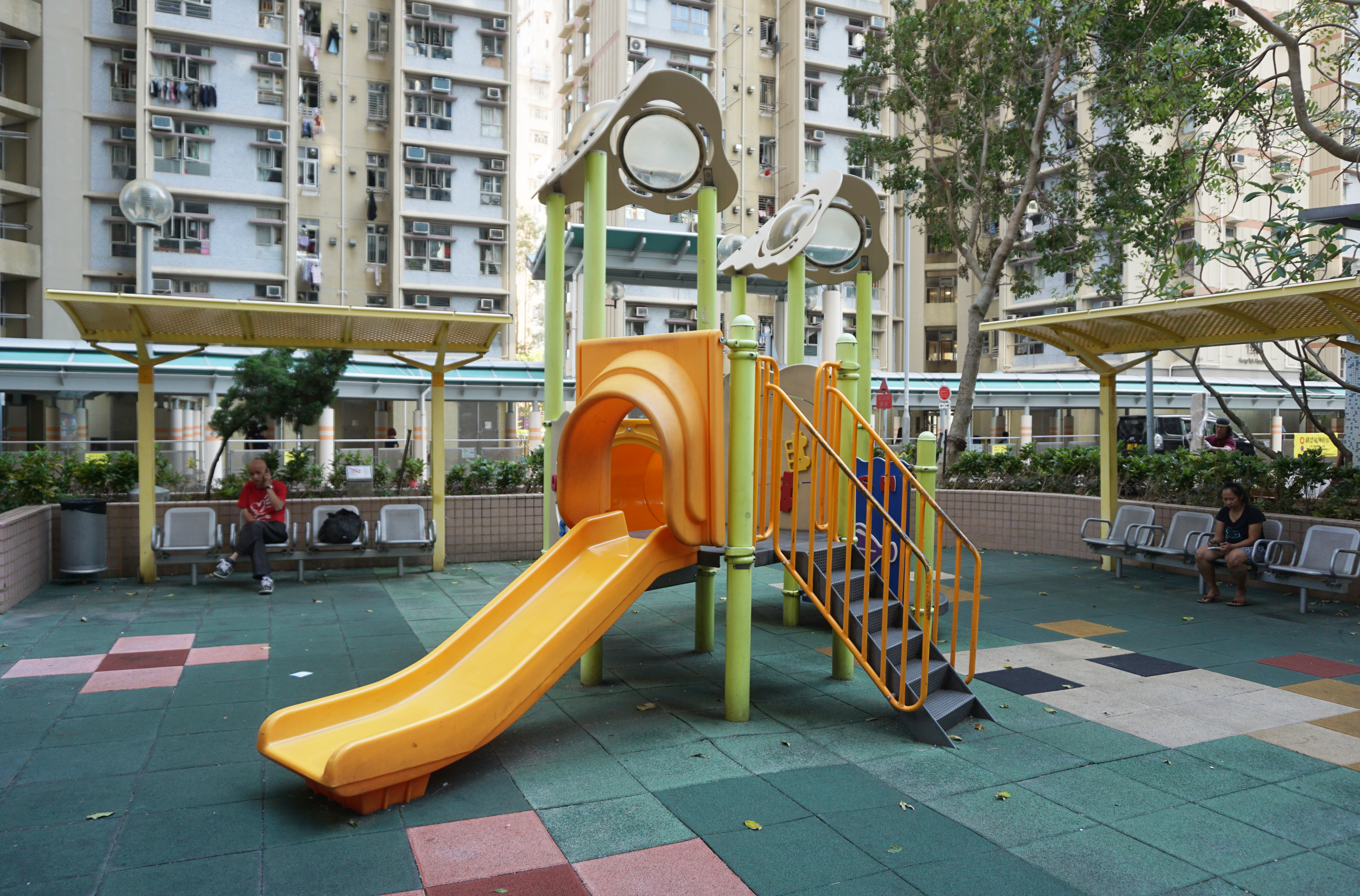 Tsz Man Estate in Tsz Wan Shan, Hong Kong.